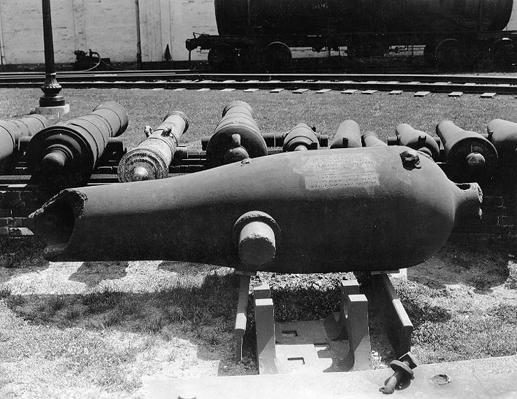 Damaged Dahlgren gun from CSS Virginia (ex-USS Merrimack) Photographed at the Washington Navy Yard, D.C., 27 April 1933. Several other guns, relics of the Civil War and earlier conflicts, are beyond. The gun is inscribed: "One of the Guns of the MERRIMAC in the action with the U.S. Frigates CUMBERLAND and CONGRESS March 8th 1862 when the chase was shot off". The lower inscription reads: "The mutilation of Trunnions &c shows the ineffectual attempts to destroy the Gun, when the U.S. abandoned the Norfolk Navy Yard, April 20th 1861". This gun, presumably one of Virginia's six IX-inch Dahlgren smoothbore guns, was on exhibit at Dahlgren, Virginia, in 1973. The Parrott gun (second from right in the row behind) is inscribed "Tug Teaser" Original caption: “Photo # NH 1896 Gun from CSS Virginia, damaged in action with Congress & Cumberland, 8 March 1862”